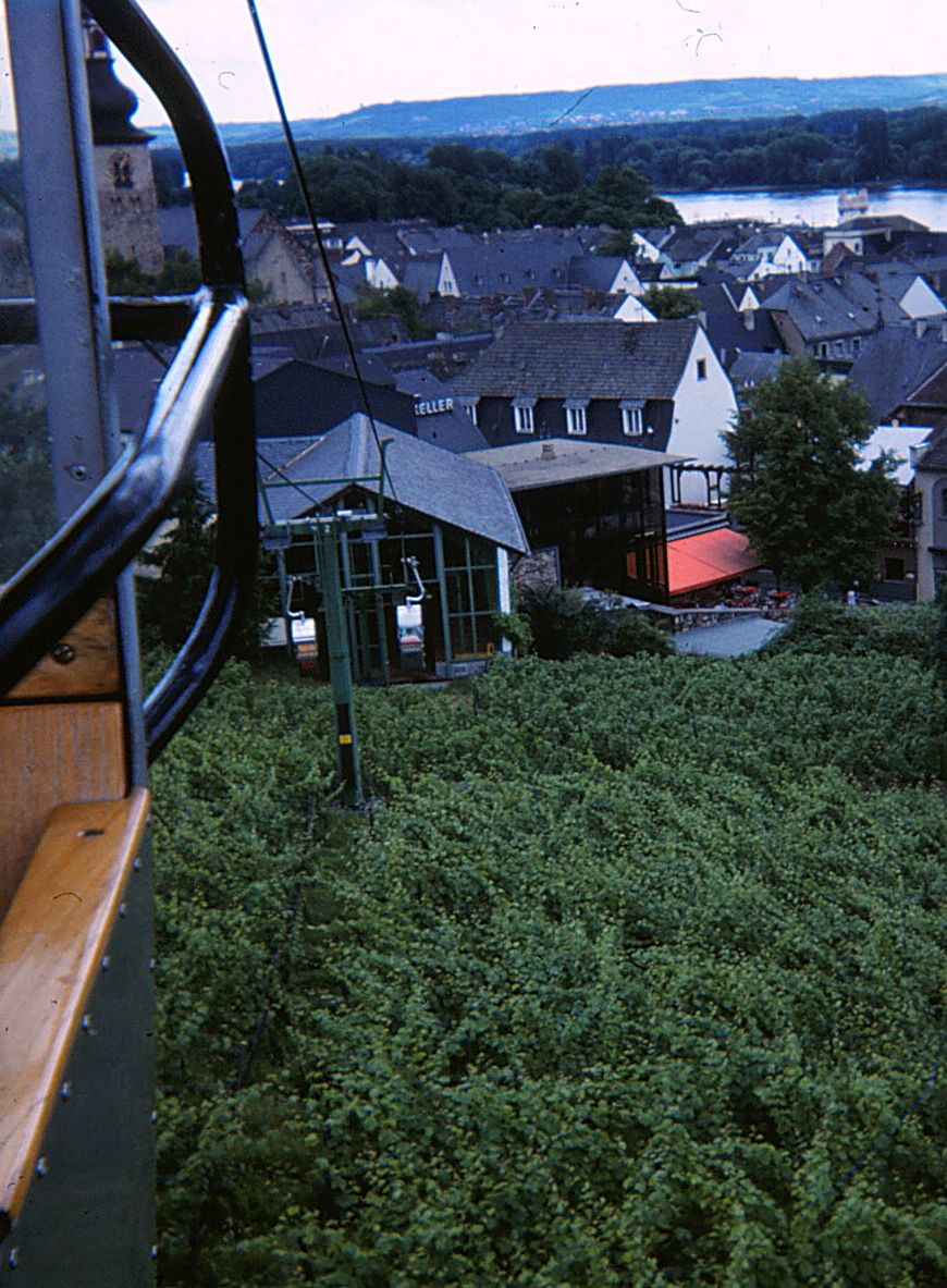 Rüdesheim's ropeway-station. 03 July, 1988